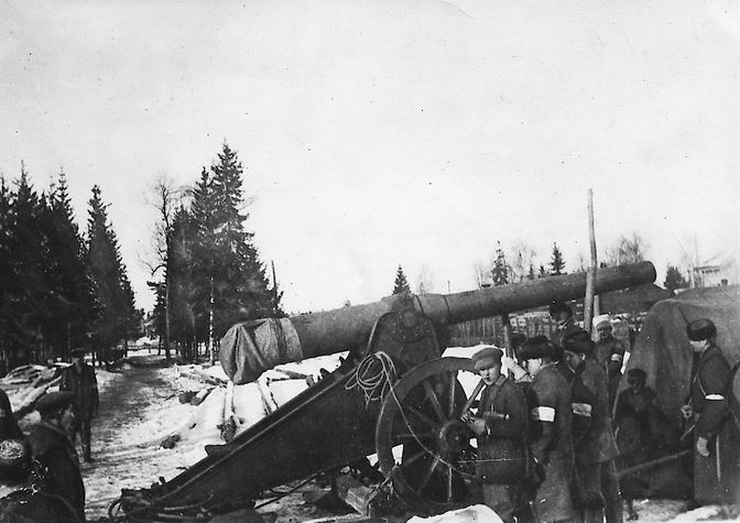 1918 Finish Civil War: White Guard artillery in Vilppula.